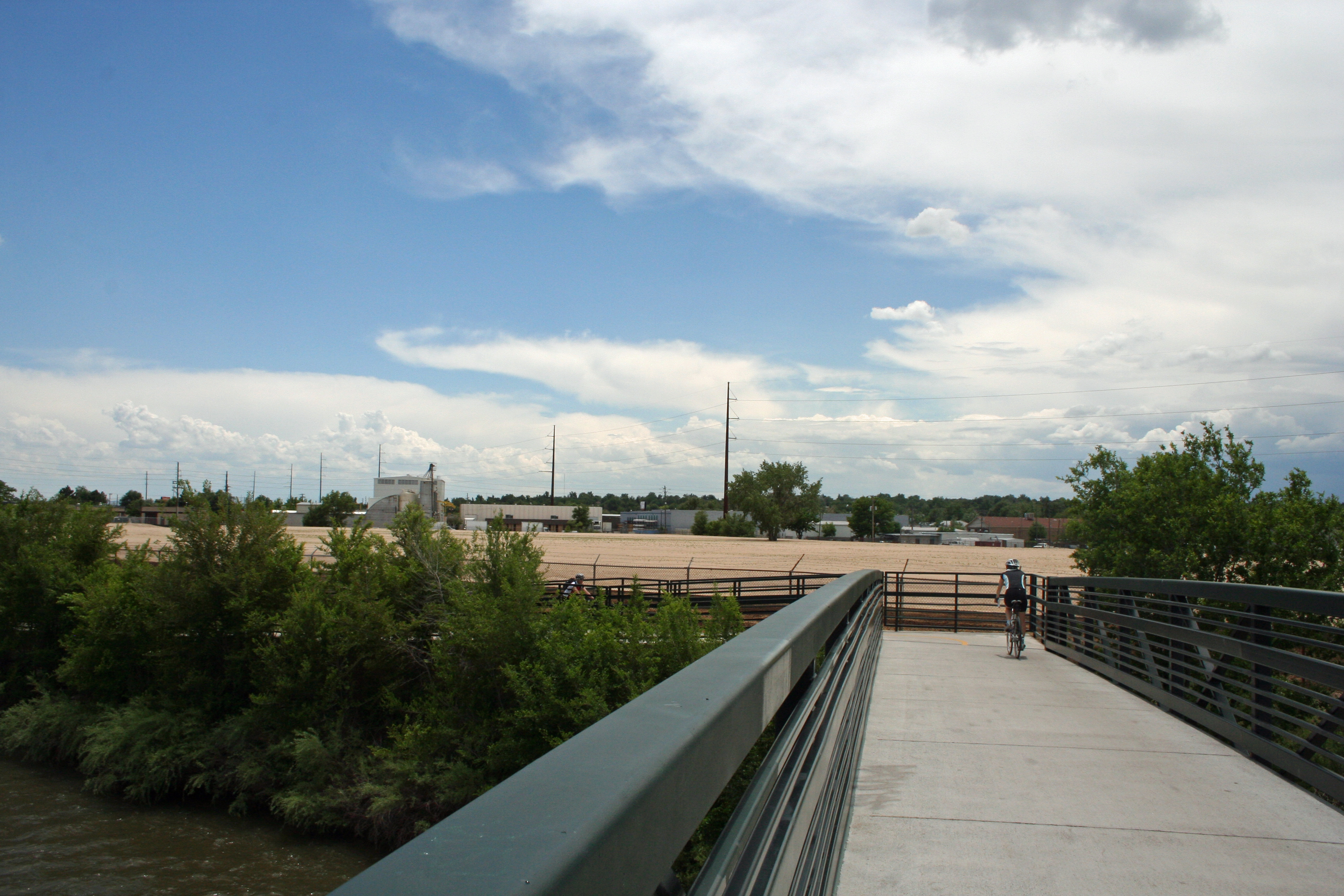 The Valverde Neighborhood in Denver, Colorado, as viewed from a bicycle path bridge over the South Platte River, looking towards the west southwest.